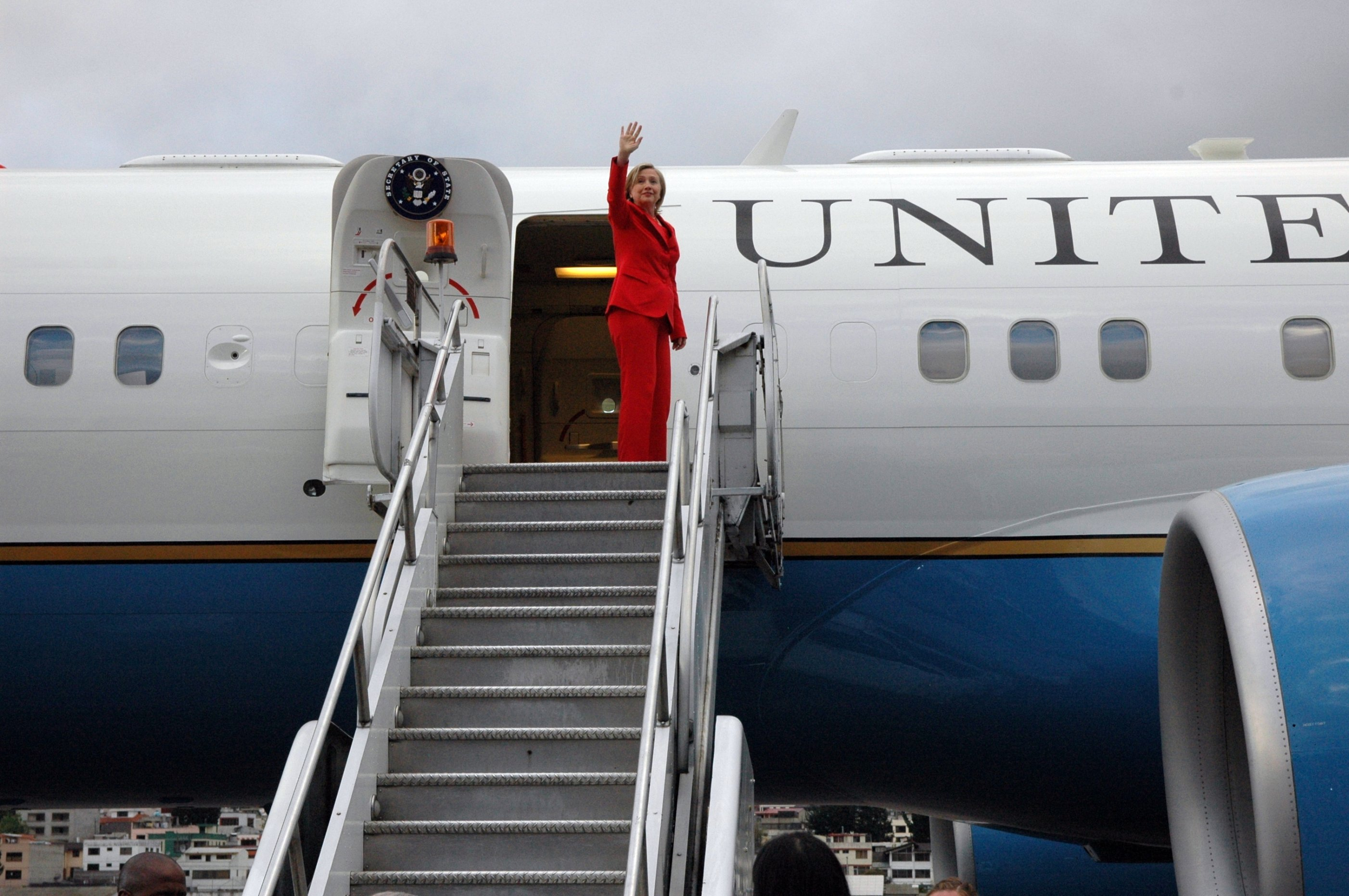 U.S. Secretary of Clinton waves goodbye to Quito, Ecuador, on June 8, 2010. [State Department photo/ Public Domain]